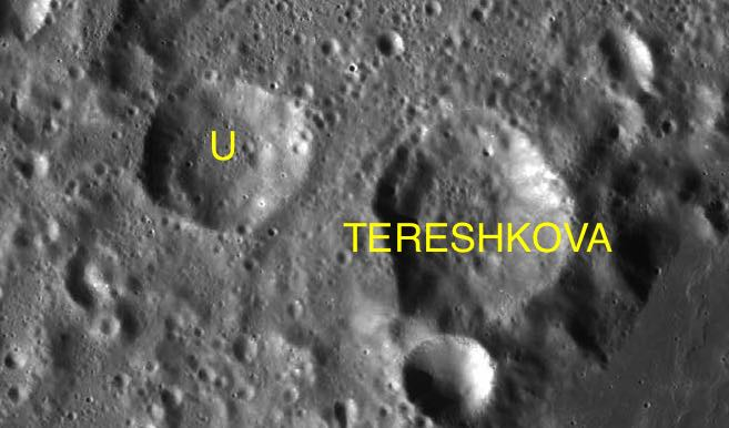 Part of the chart LAC-48 used for the presentation